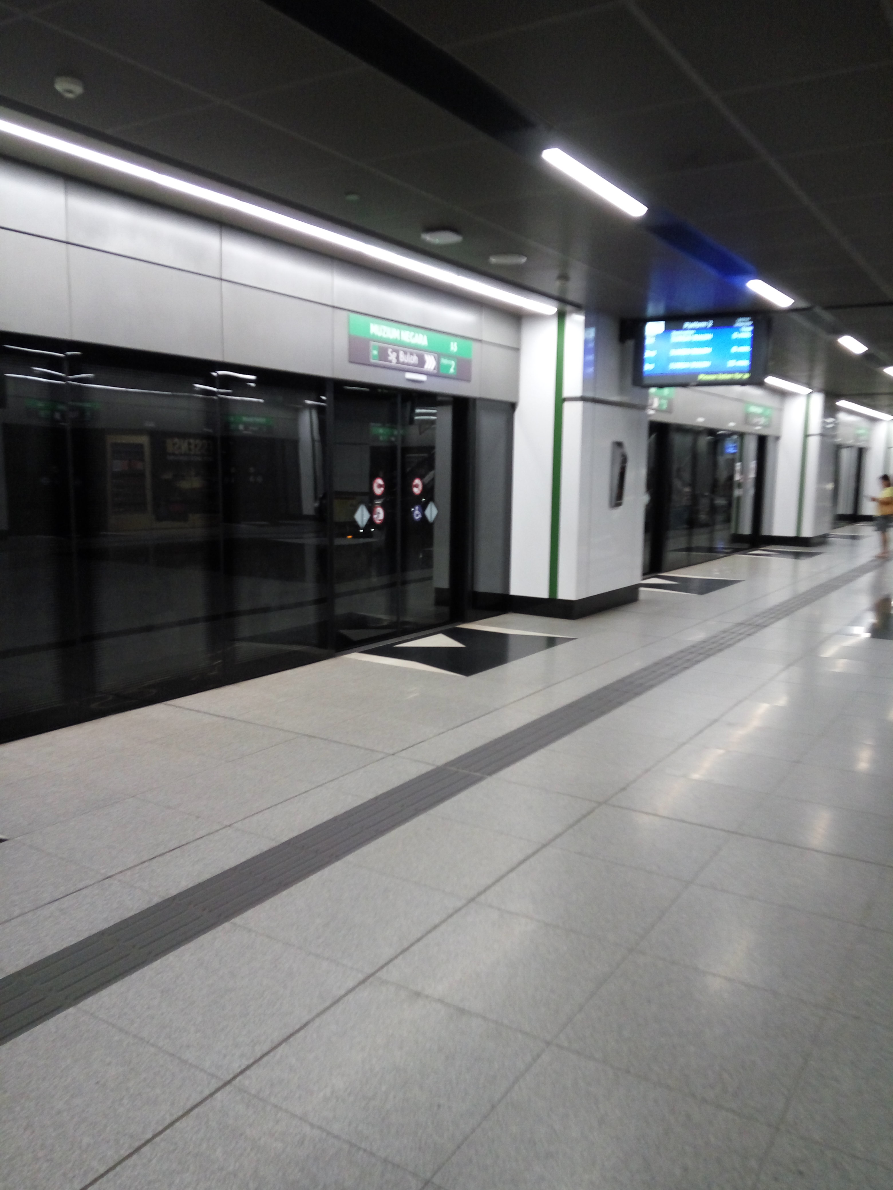 Muzium Negara MRT Platform